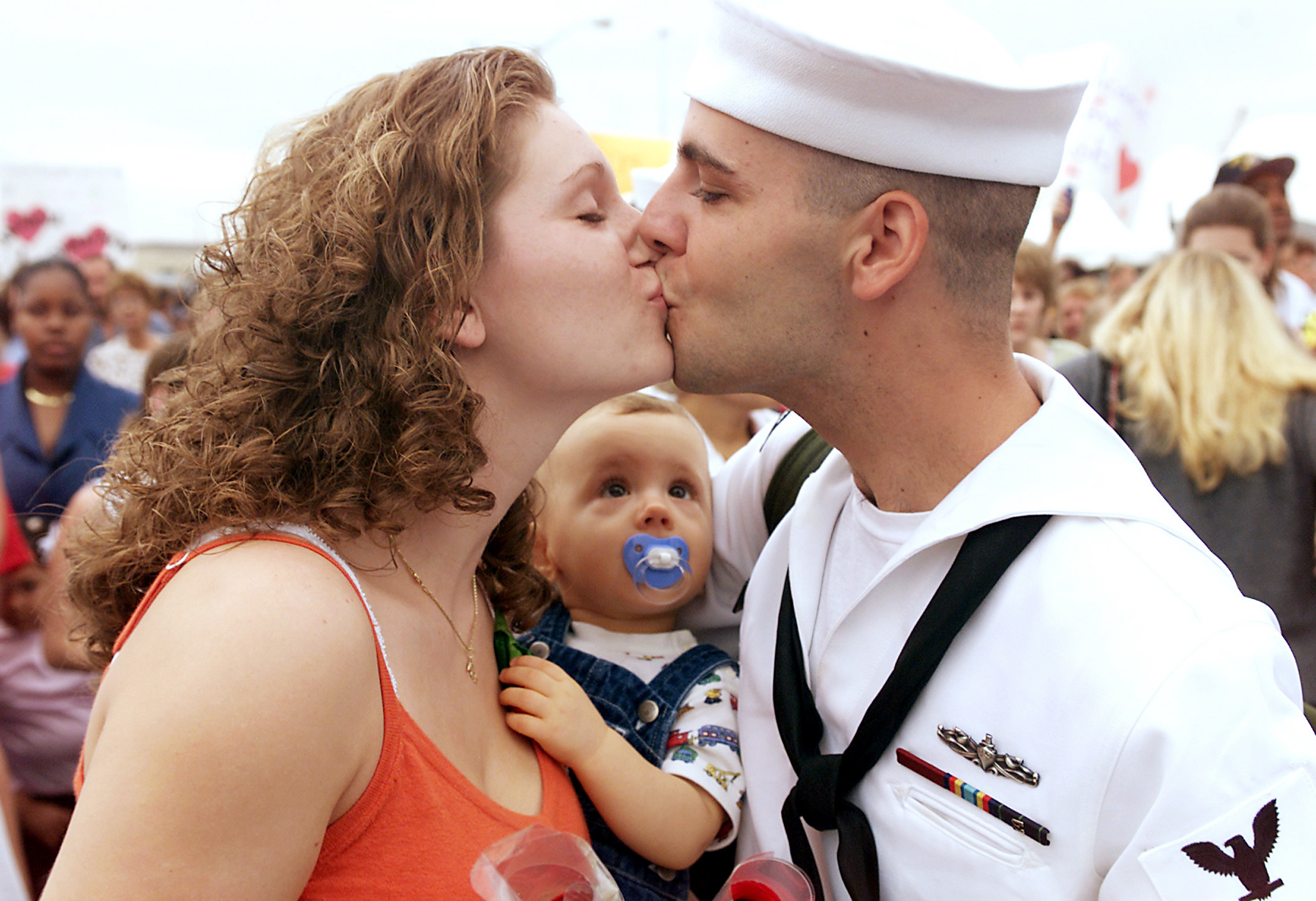 "Yeah, that's my dad," little Michael Standfill (center) seems to say as he intently watches his father Petty Officer 2nd Class Michael Standfill kiss his wife Terri during their reunion on the pier in Norfolk, Va., on Aug. 18, 2000. Michael's father, who is a Navy operations specialist, just returned from six-month deployment to the Mediterranean Sea and Persian Gulf aboard the USS Mahan (DDG 72). The Mahan was one of nine ships assigned to the USS Dwight D. Eisenhower Carrier Battle Group which enforced no-fly zones over the former Yugoslavia and Southern Iraq.